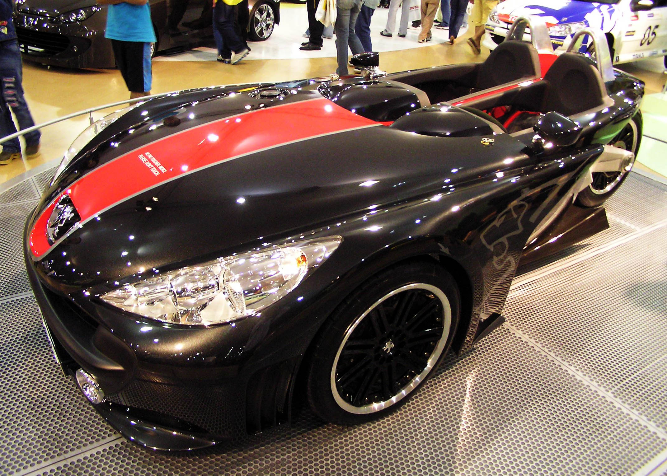 Peugeot 20Cup concept car at the Salão Internacional do Automóvel (International Automobile Trade Show).